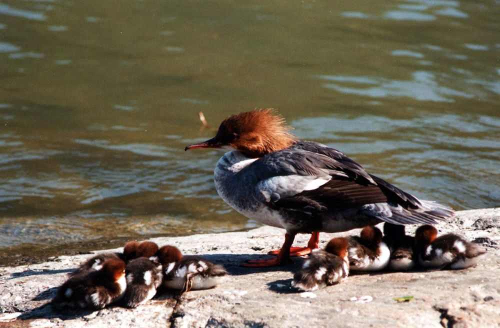 Goosander feeding her numerous chicks